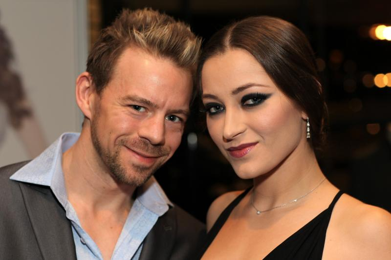 Erik Everhard & Dani Daniels on AVN Awards night. Photos from the 2013 AVN Awards held at the at the Hard Rock Hotel & Casino in Las Vegas.